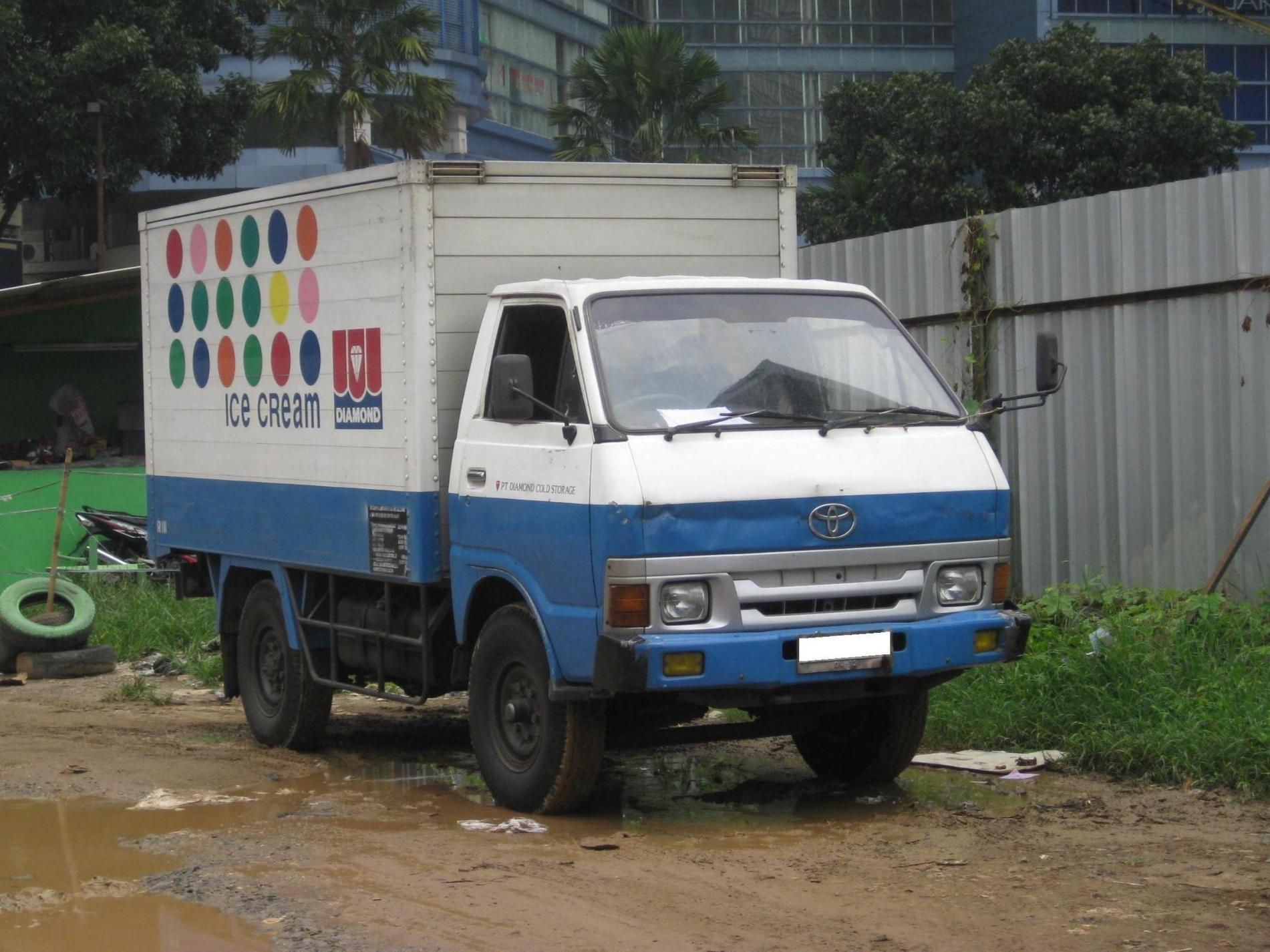 Toyota Dyna Rino (BY34) Ice Cream Delivery Truck, photographed in Jakarta, Indonesia.